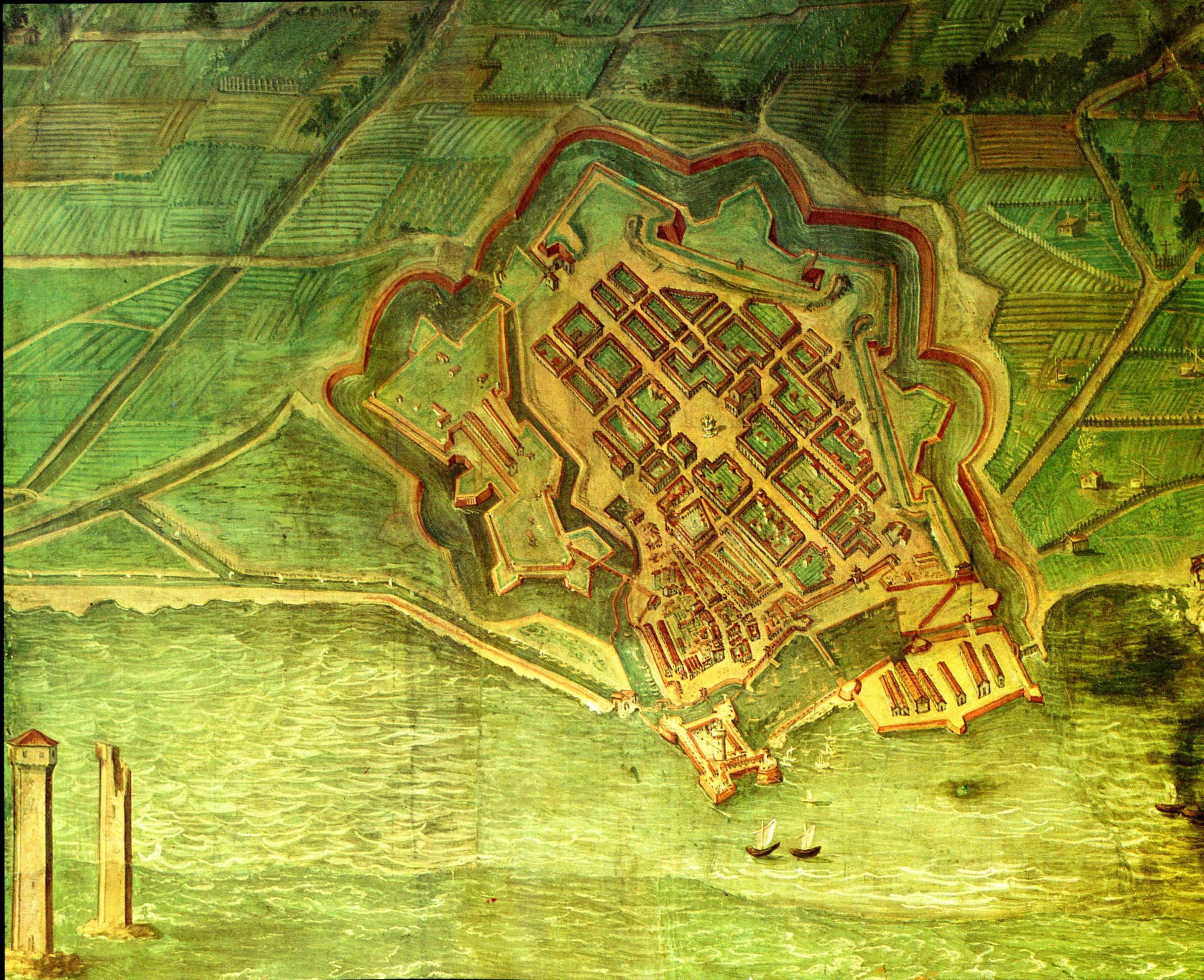 Italy, Livorno. The perspective map of the town of Livorno.